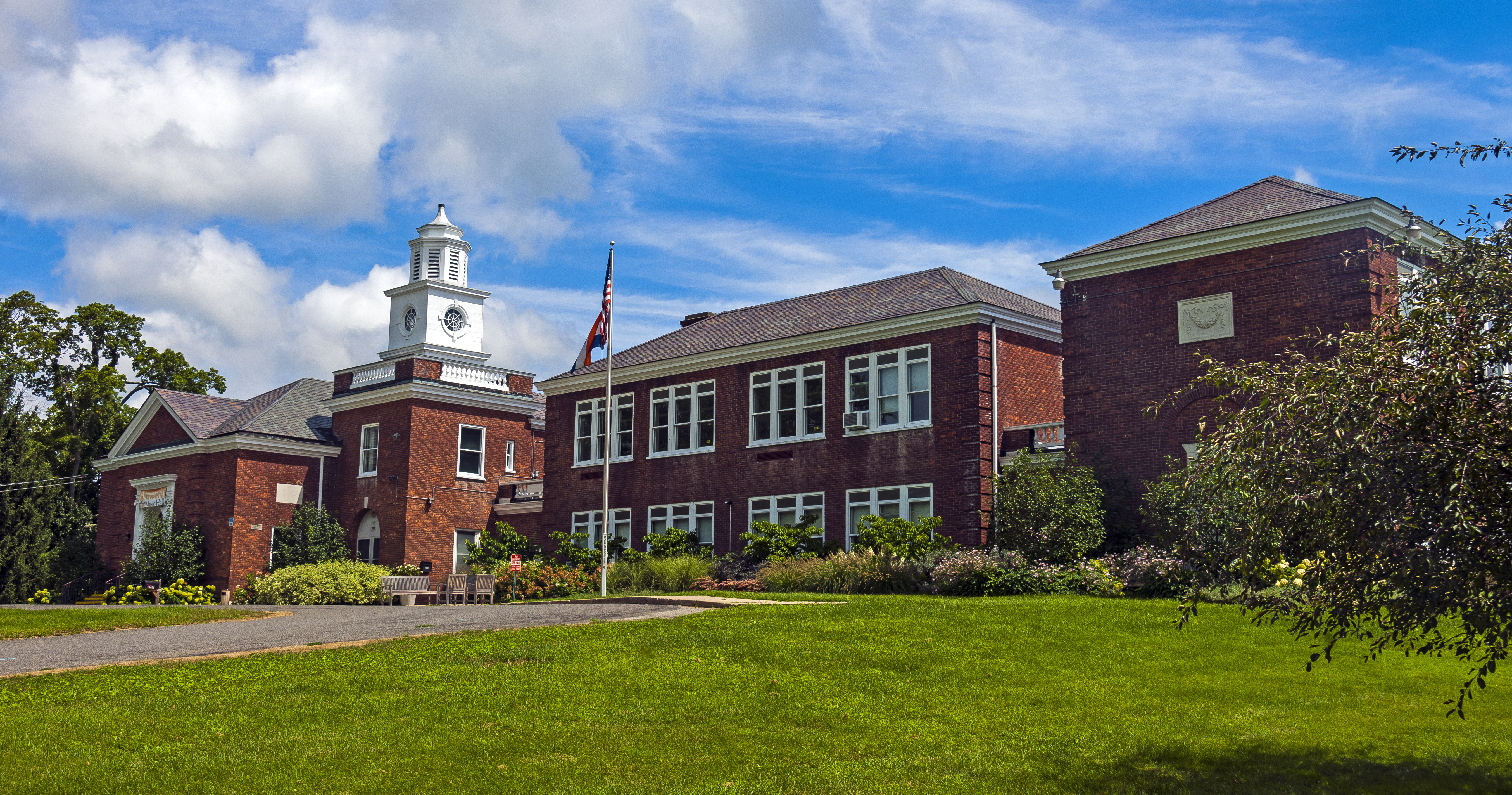 Town hall building, Amenia, NY, USA